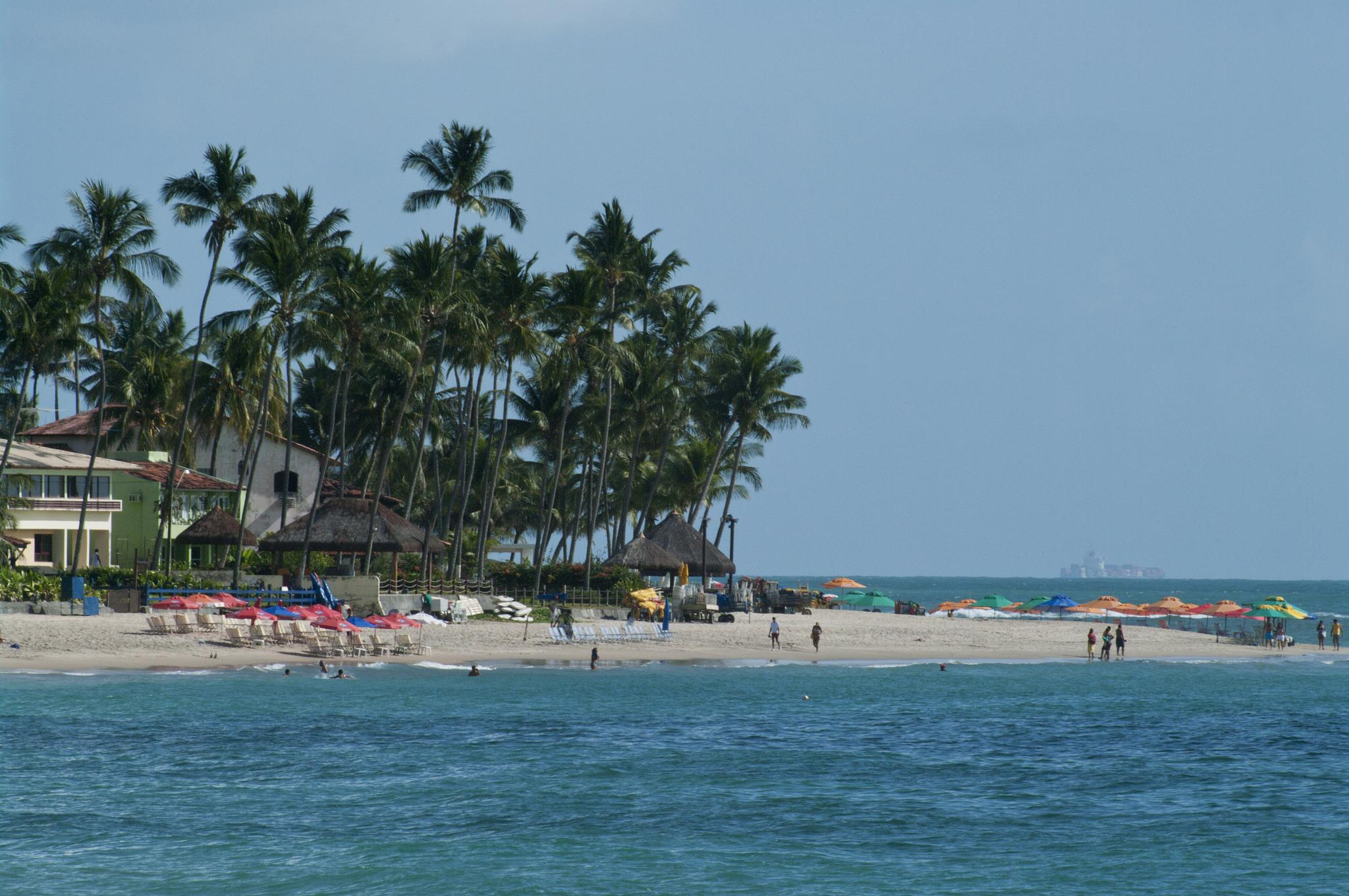 Porto de Galinhas Beach - Pernambuco - Brazil